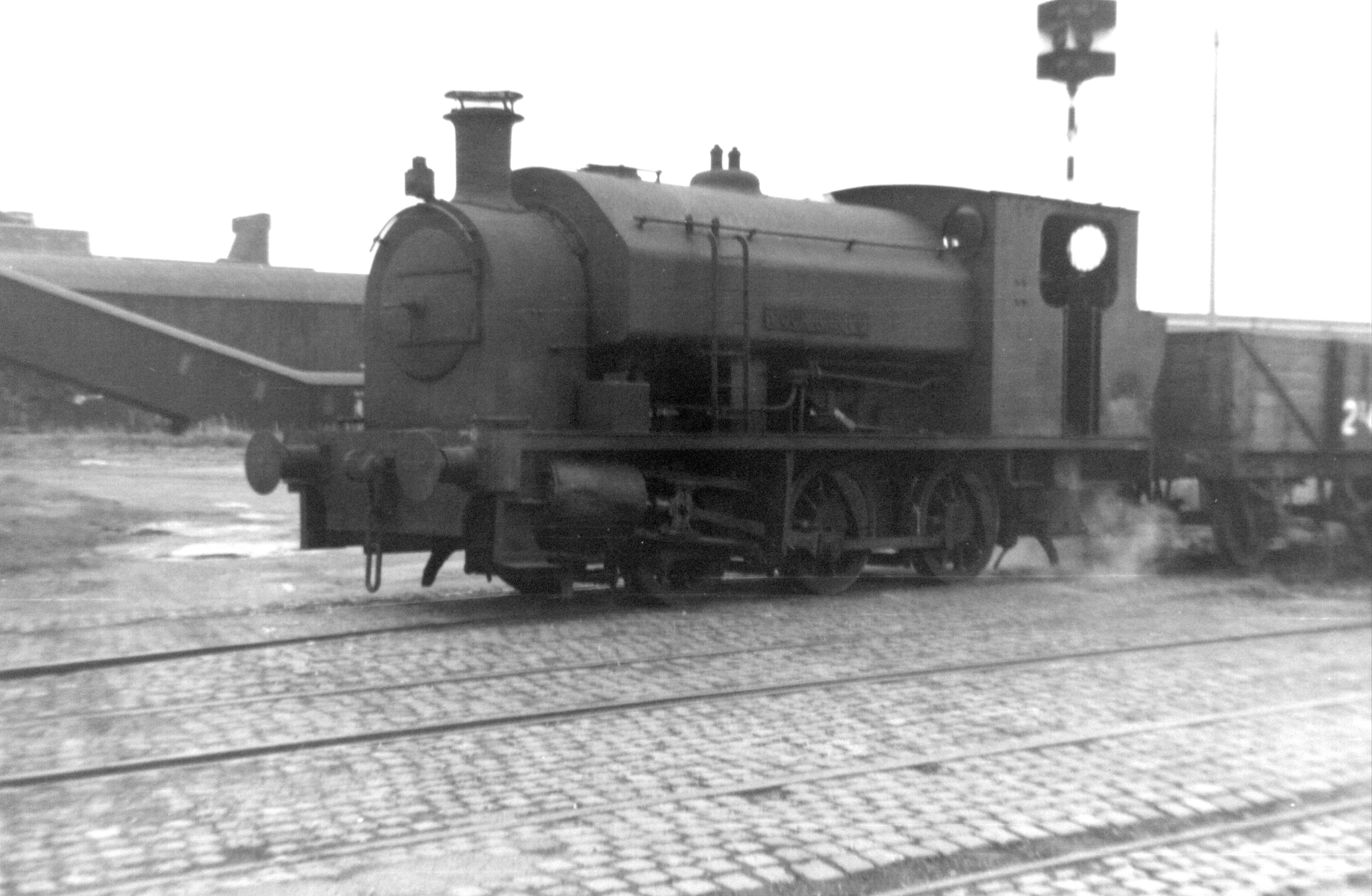 Scanned from print, negative long lost. Taken on Coronet Clipper 120 camera.